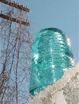 A sparkling CD145 or "Beehive" insulator - from the telegraph era. Made by the Brookfield Glass Company circa 1882 yet affordable at an approximate price of $2.00 Author:Lee Brewer; Source: Picture taken by Lee Brewer:This image may be used by anyone for any purpose.